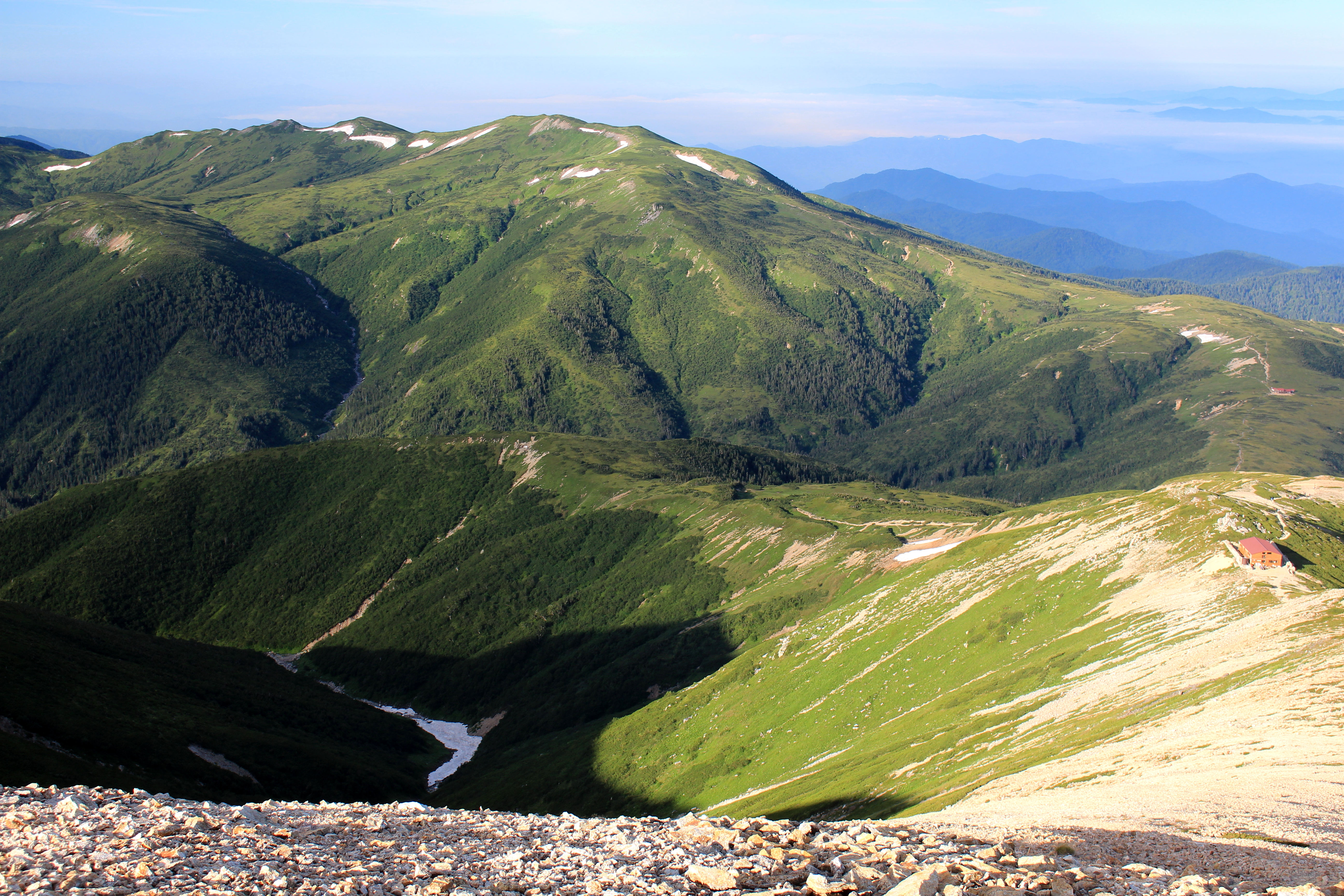 Mount Kitanomata seen from Mount Yakushi in Tatayama Mountains of Hida Mountains, Japan.